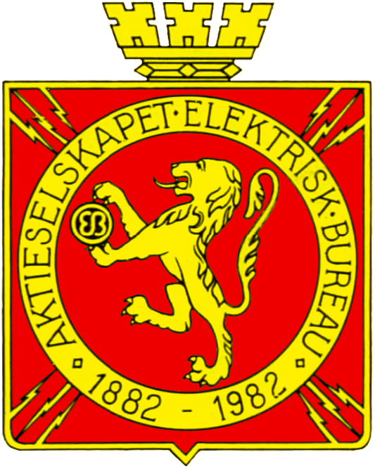 The coat of arms of Elektrisk BureauNorsk bokmål: Aktieselskapet Elektrisk Bureaus våpen